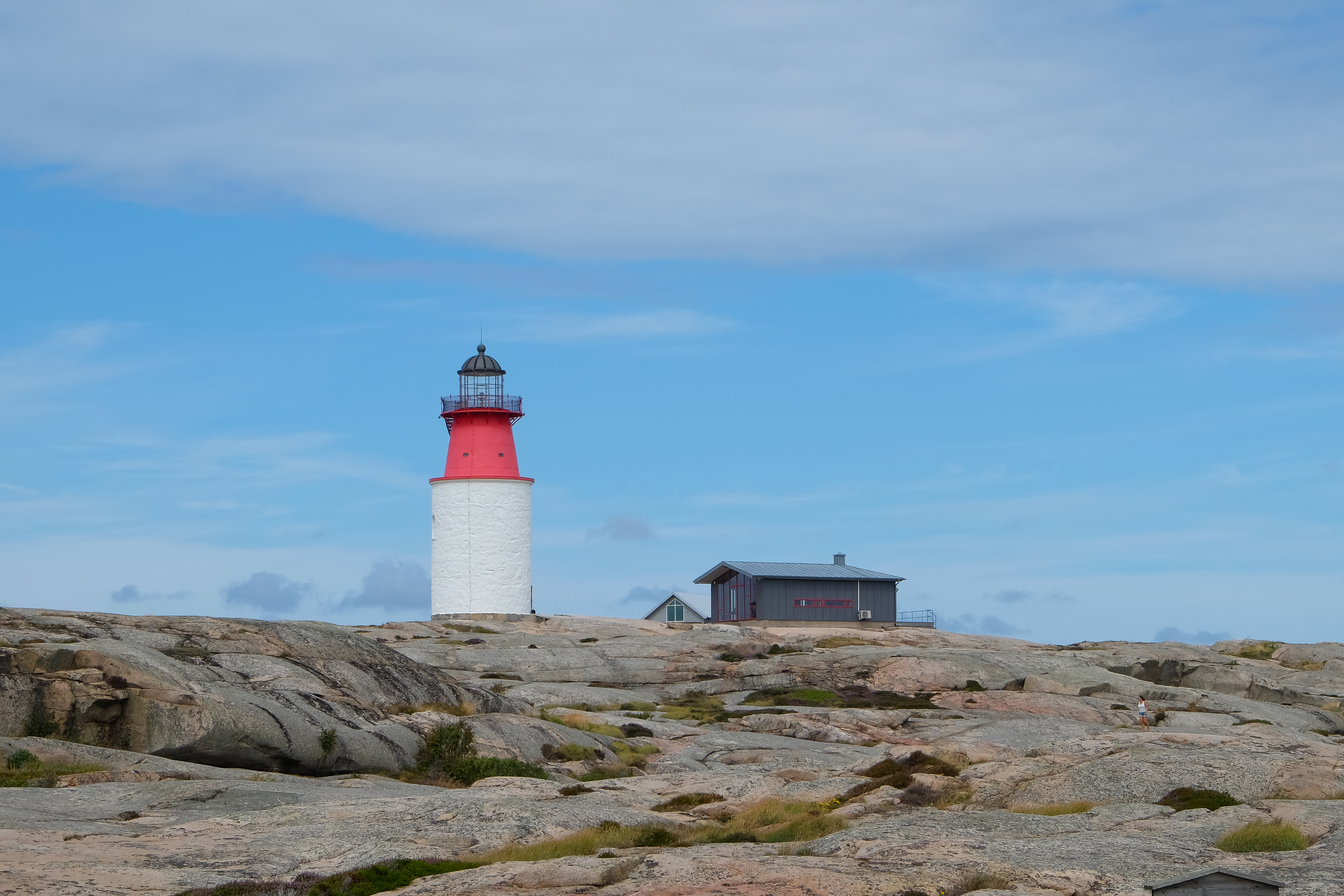 Hållö lighthouse outside Kungshamn, Sweden.